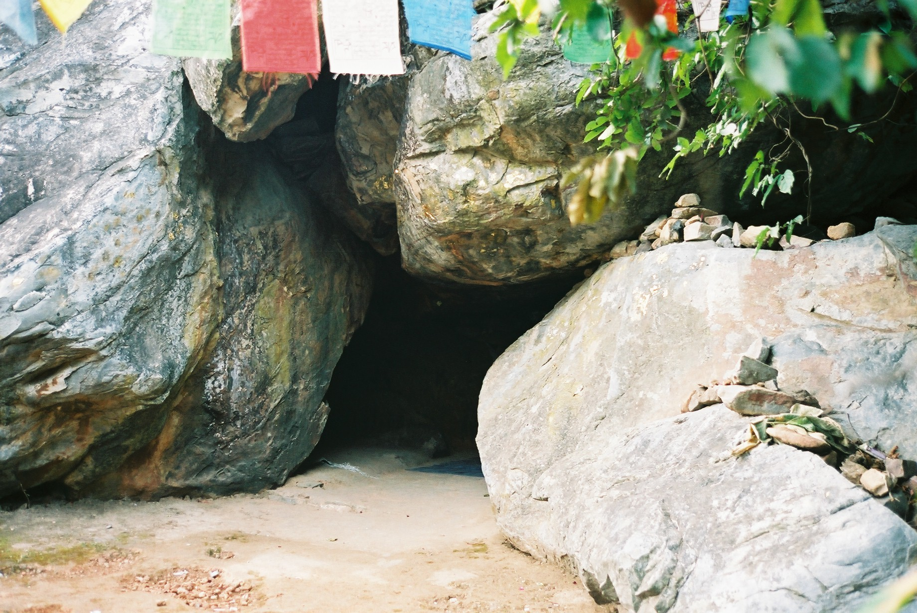 Meditation area, Griddhakuta Hill, Rajgir.